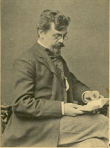 Post card pictue of Wolzogen.